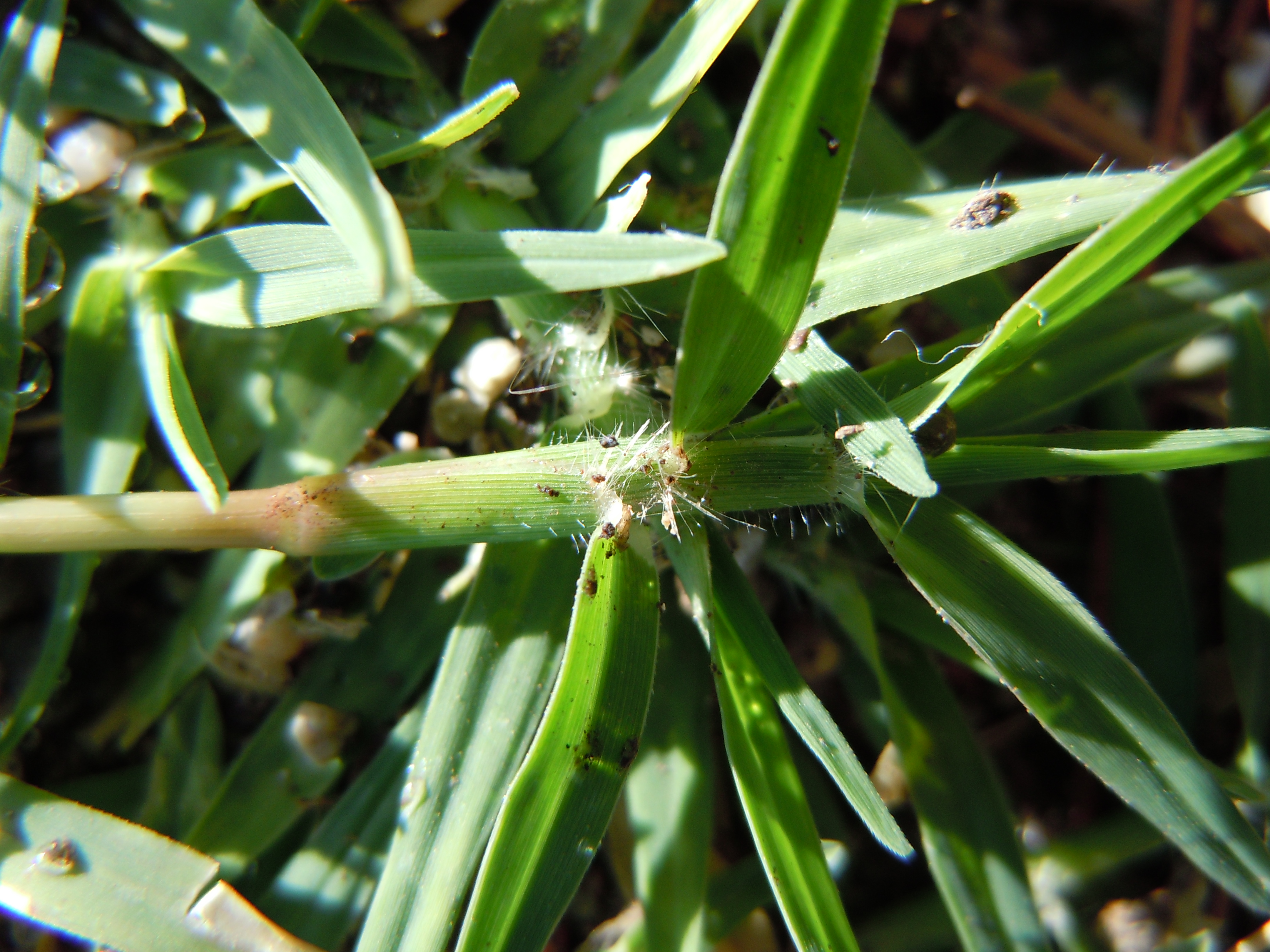 The common lawn grass in warm temperate regions of North America.